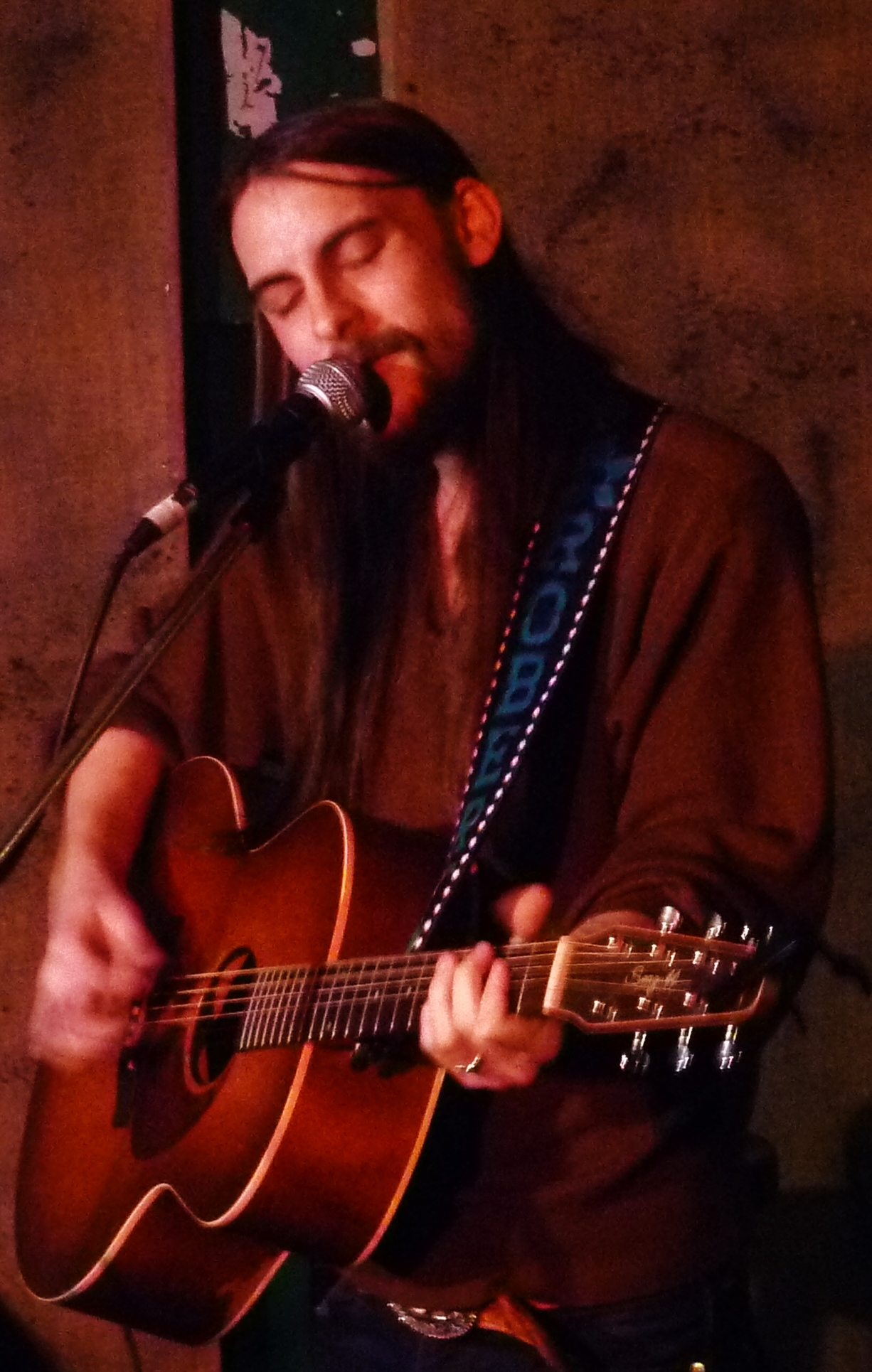 Robert Ellis playing the Brixton Windmill, March 7th 2012.